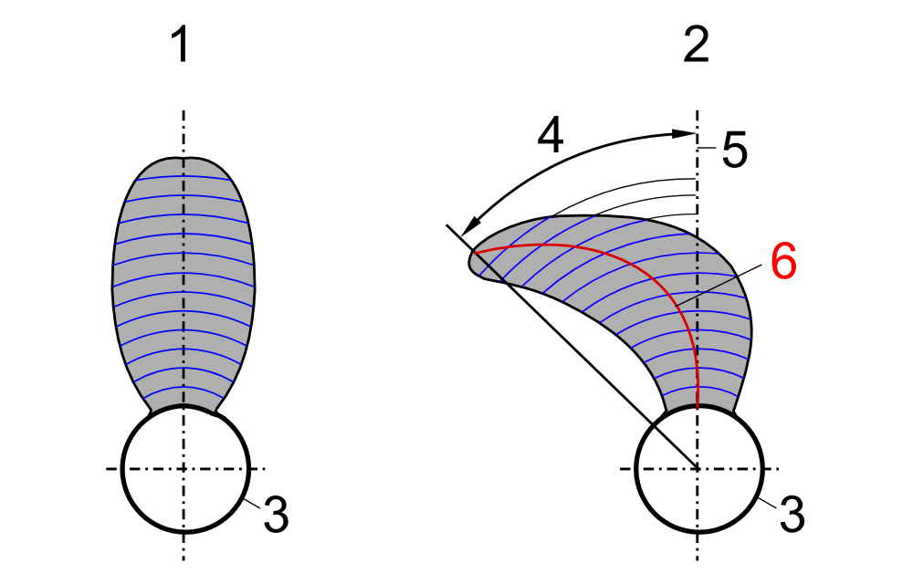 Hi-skew propeller (normal vs_ Hi-skew)